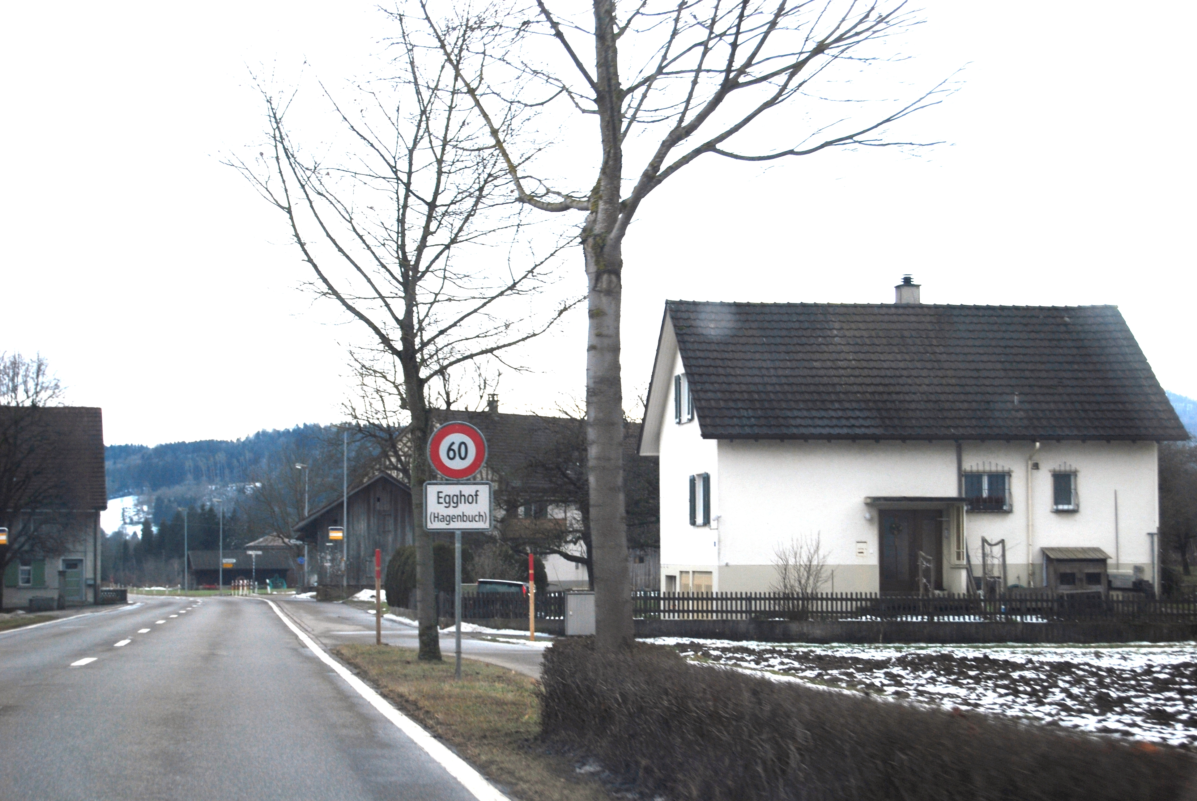 Egghof, municipaltiy of Hagenbuch, canton of Zürich, SwitzerlandEsperanto: Egghof, komunumo Hagenbuch, Kantono Zuriko, Svislando